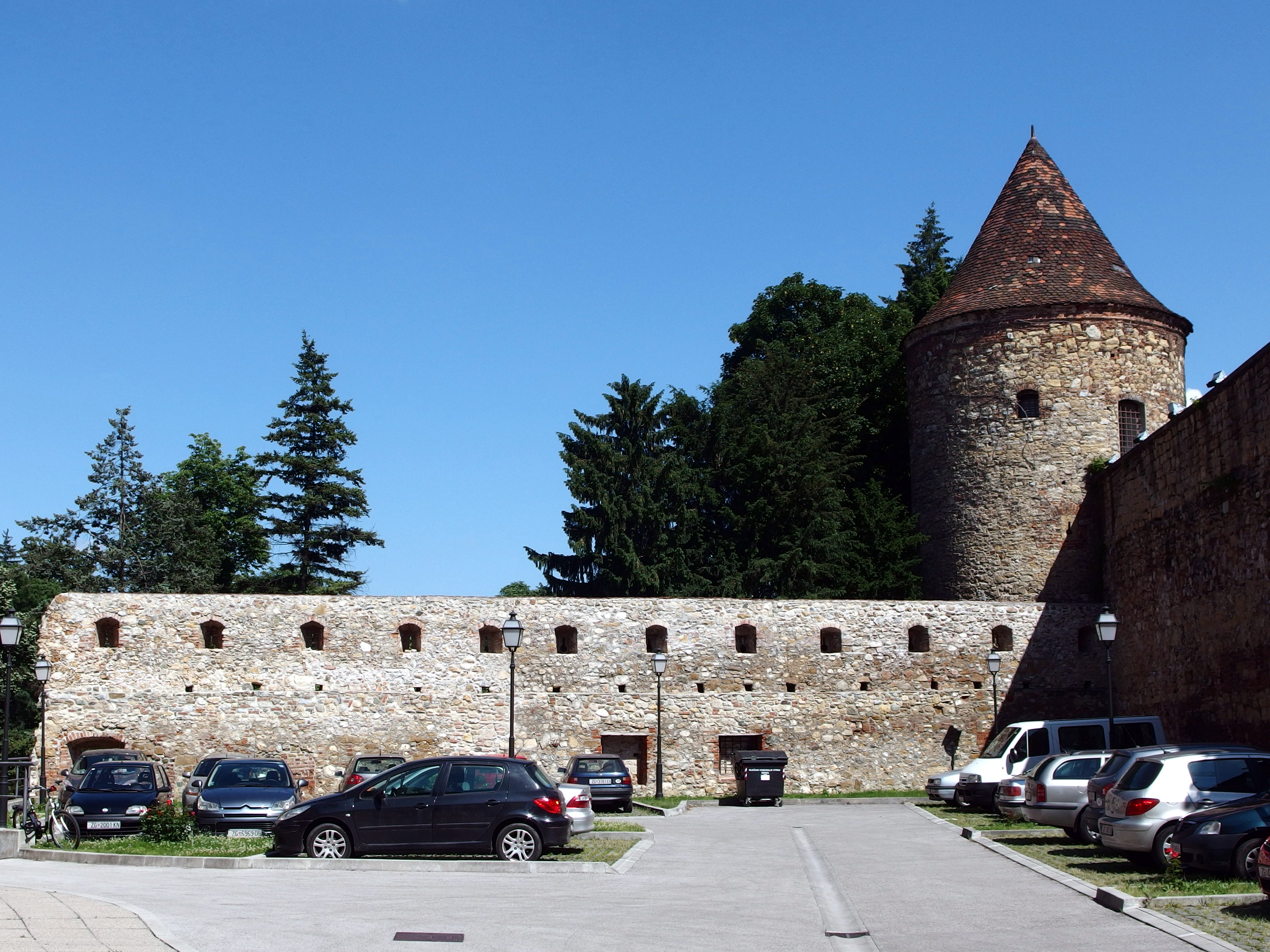 2013-06-09 in Zagreb.